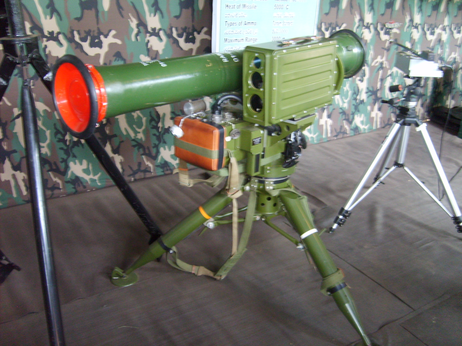 A Baktar-Shikan missile of the Sri Lanka Army, on display at the Army 60th Anniversary Exhibition